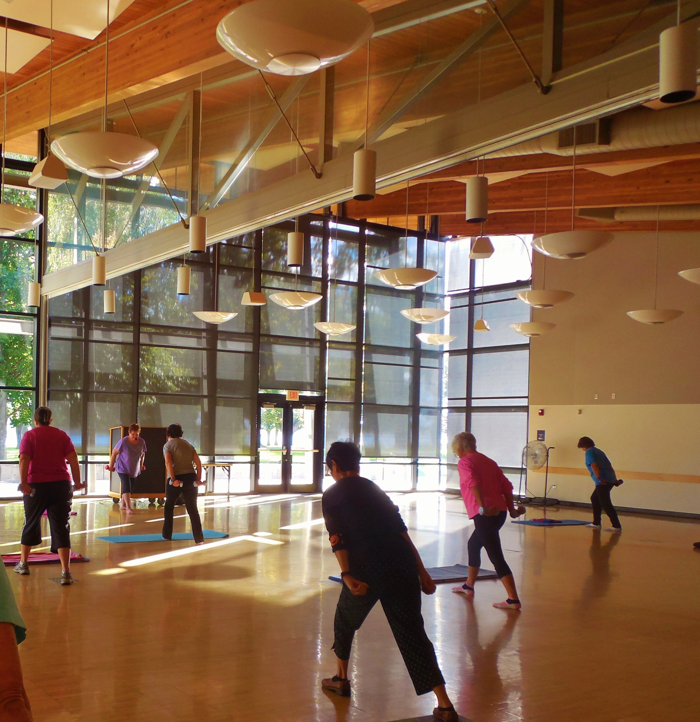 Richland Community Center inside